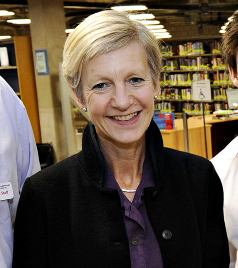 (L to R) Matt Cunningham, Head of Customer Srvices for the Library, Shirley Pearce, Vice Chancellor of Loughborough University, Richard Smith, a former student, Ruth Jenkins, University Librarian and Jim Overend, Head of Alumni Relations.